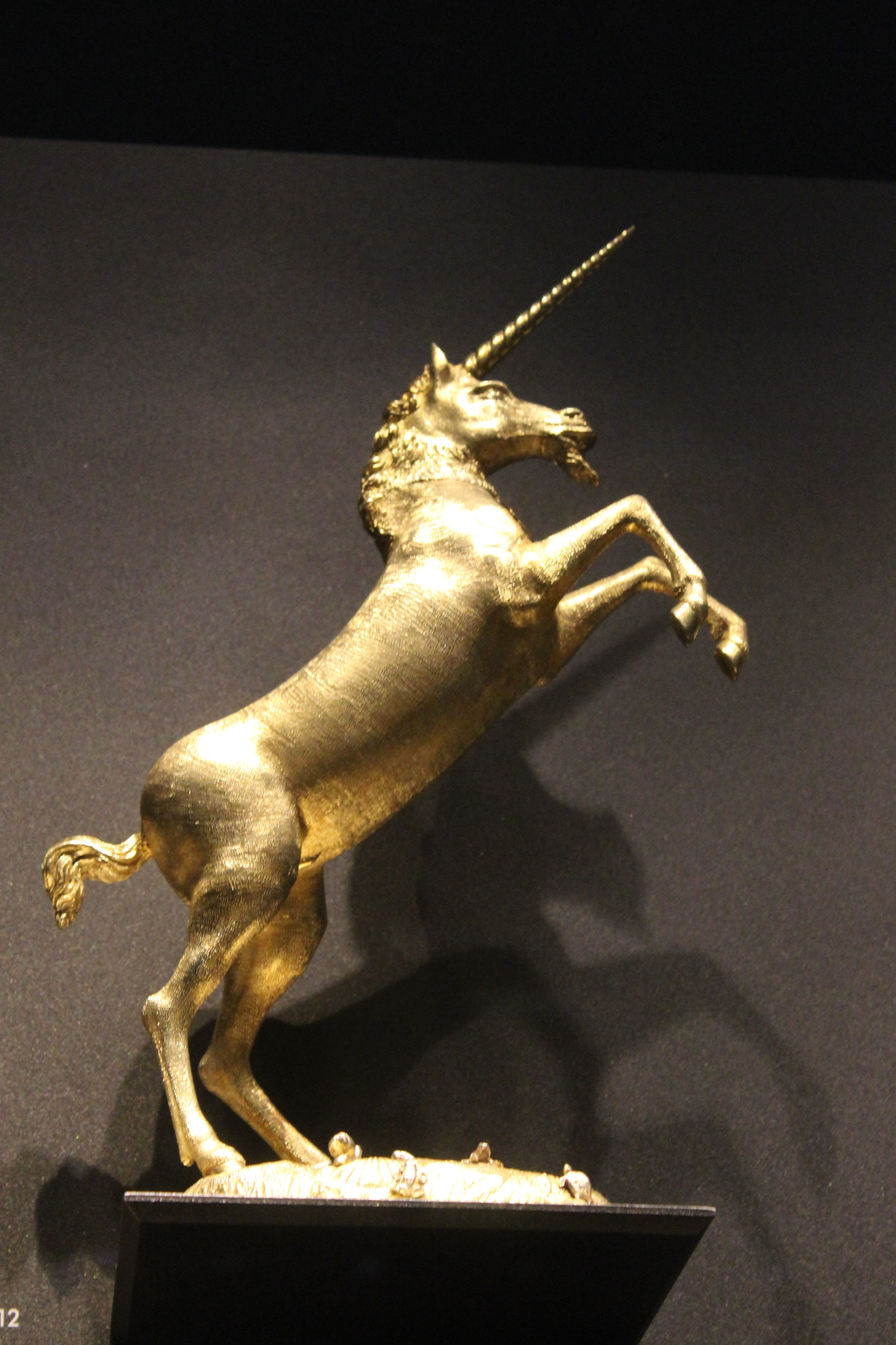 Unicorn Cup by Heinrich Jonas Waddesdon bequest